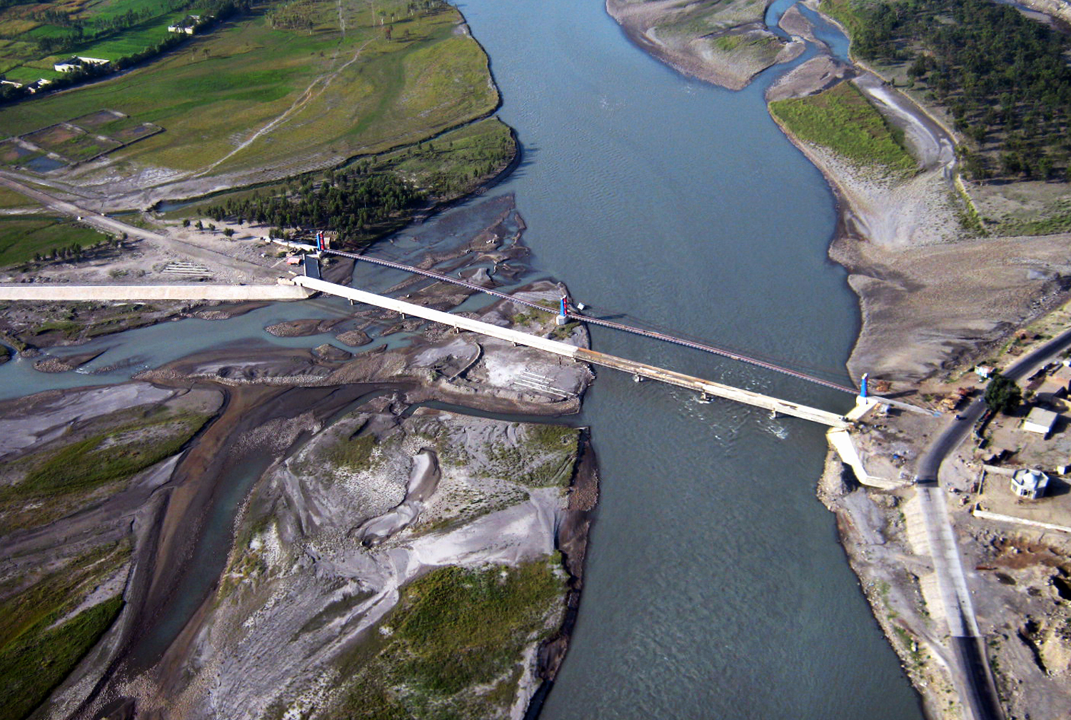 SAW BRIDGE PROJECT Kunar Provincial Reconstruction Team members take an aerial photo of the Saw Bridge construction project in Afghanistan's Kunar province, Sept. 20, 2009. The new bridges and roads are intended to improve travel, the economy and security, making it harder for insurgents to plant bombs. U.S. Air Force photo